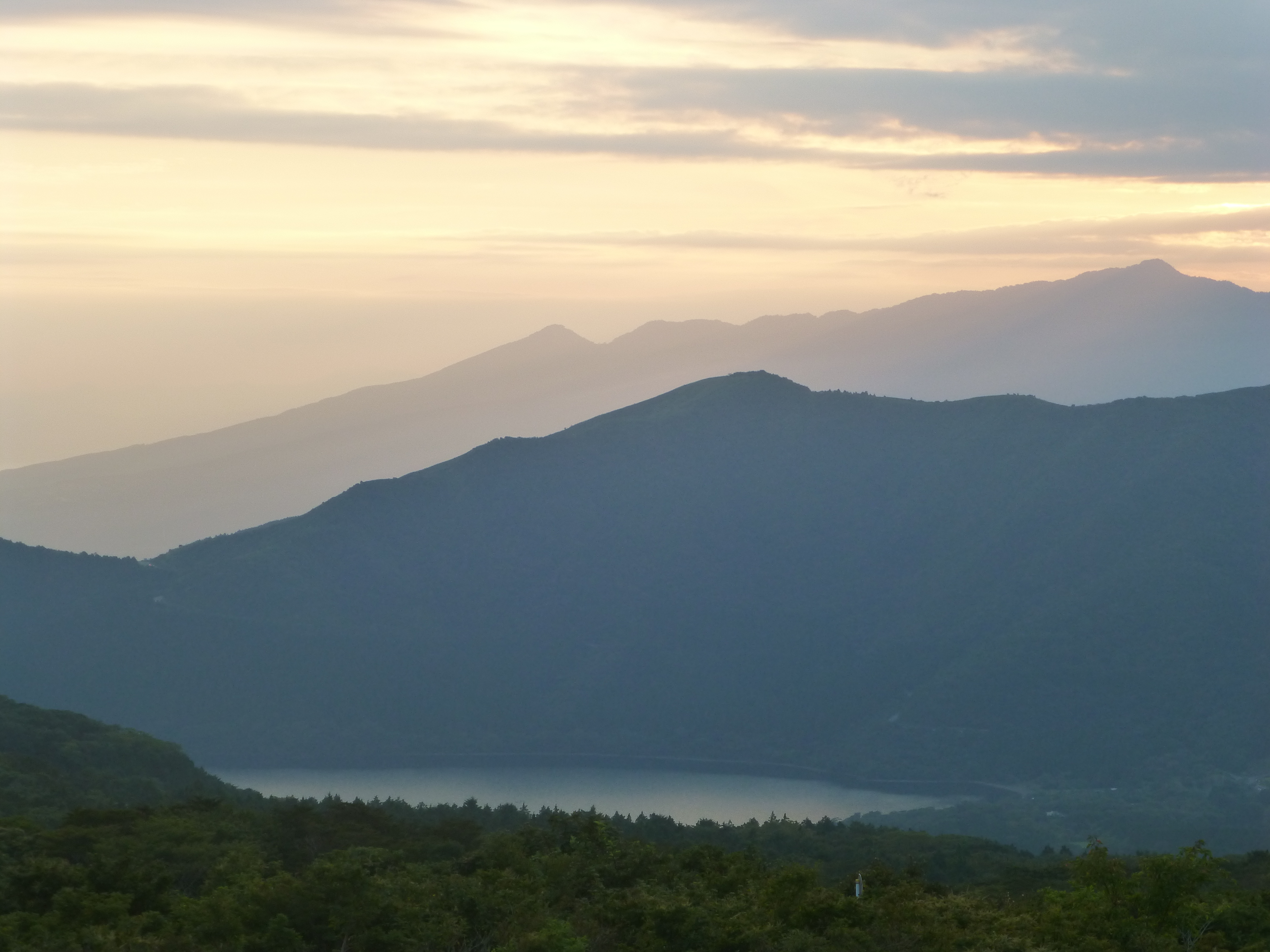 Sunset at Mount Daigatake, Hakone, Kanagawa prefecture, Japan.